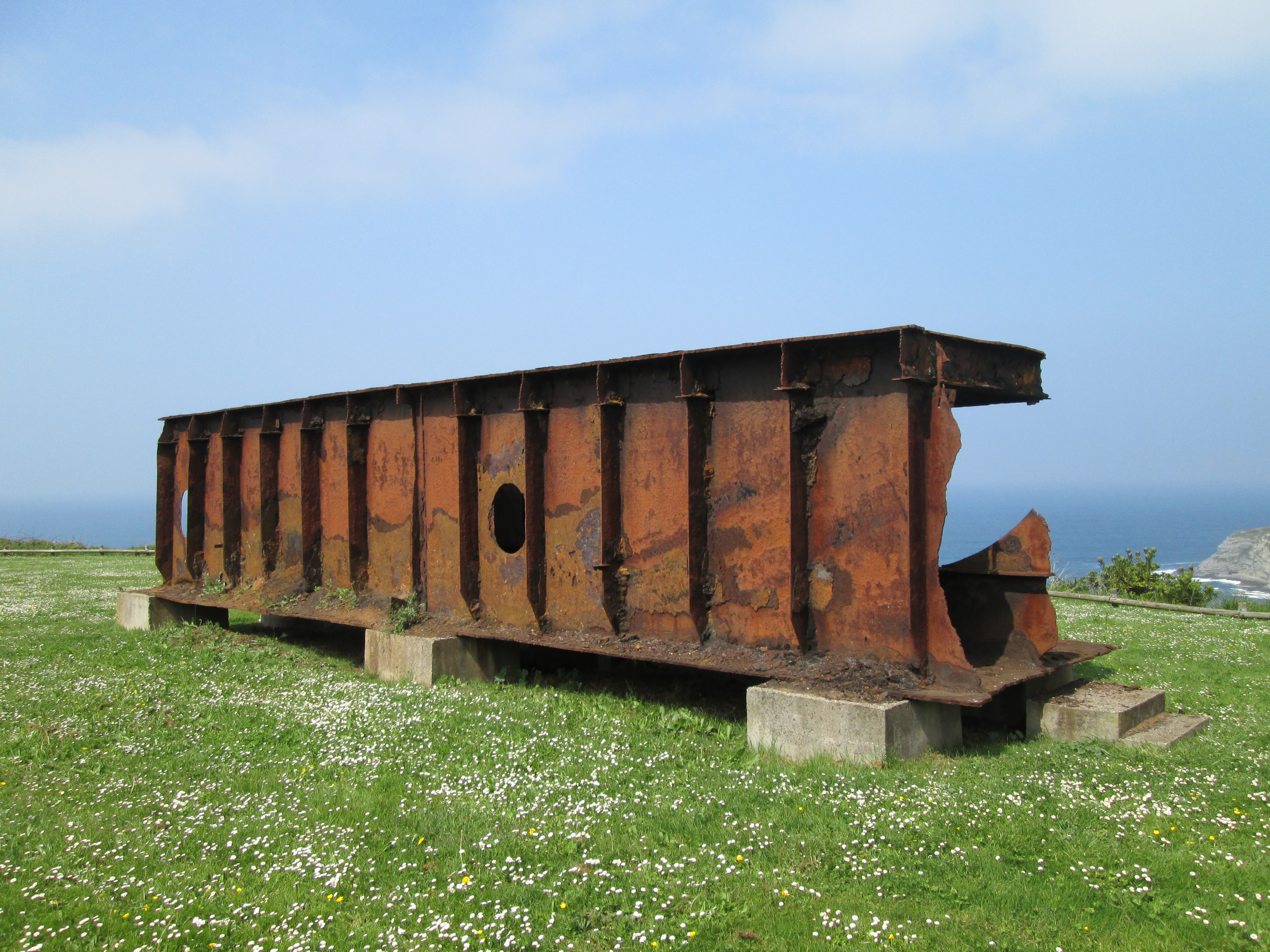 Sculpture "Memoria", by Joaquín Rubio Camín, in Gijón. The sculpture is made with part of the remains of the sinked ship "Castillo de Salas".